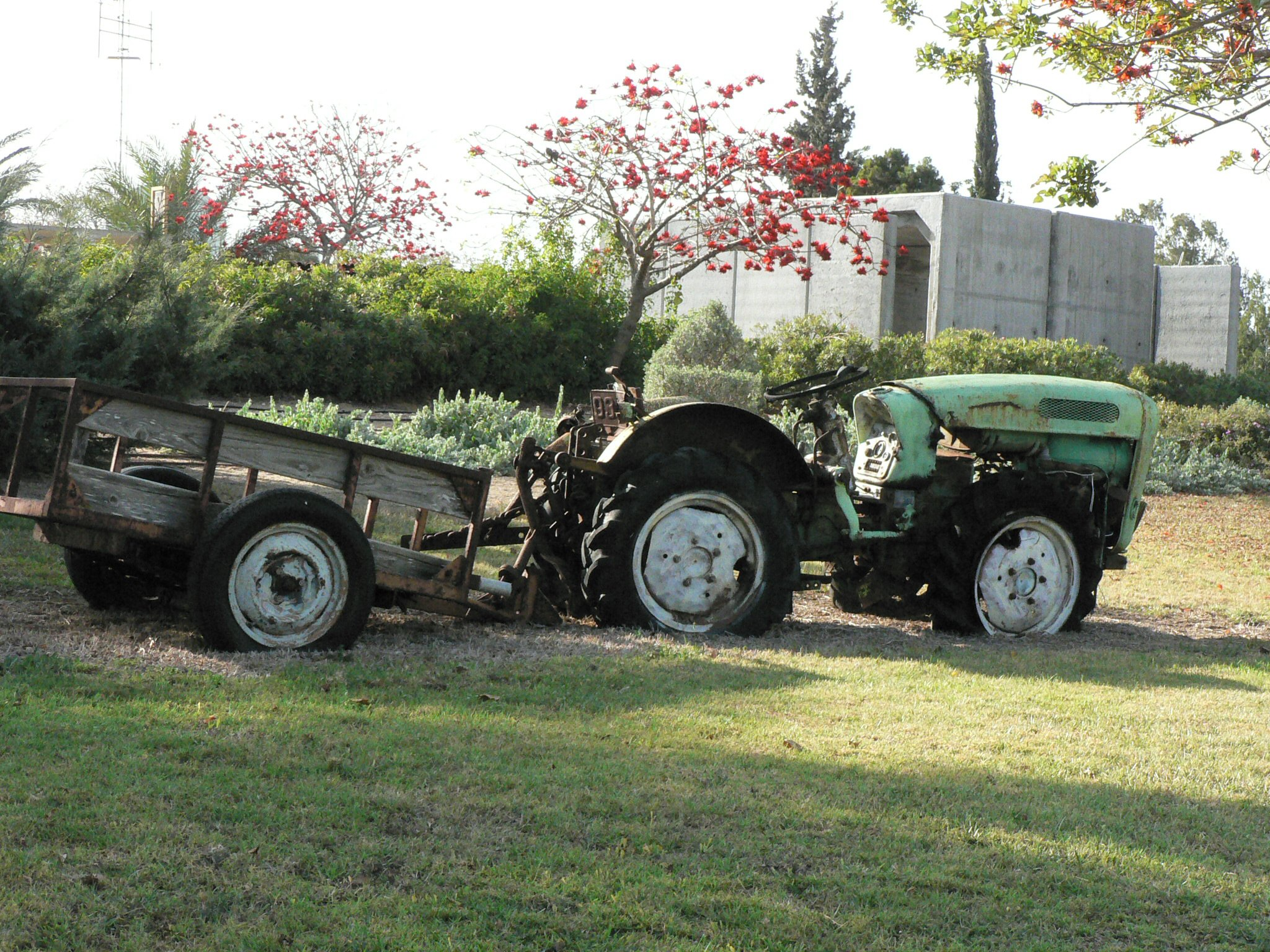 Tractor in Netiv Haasara, Israel. In the background you can see concrete shelter against Qassam rockets.